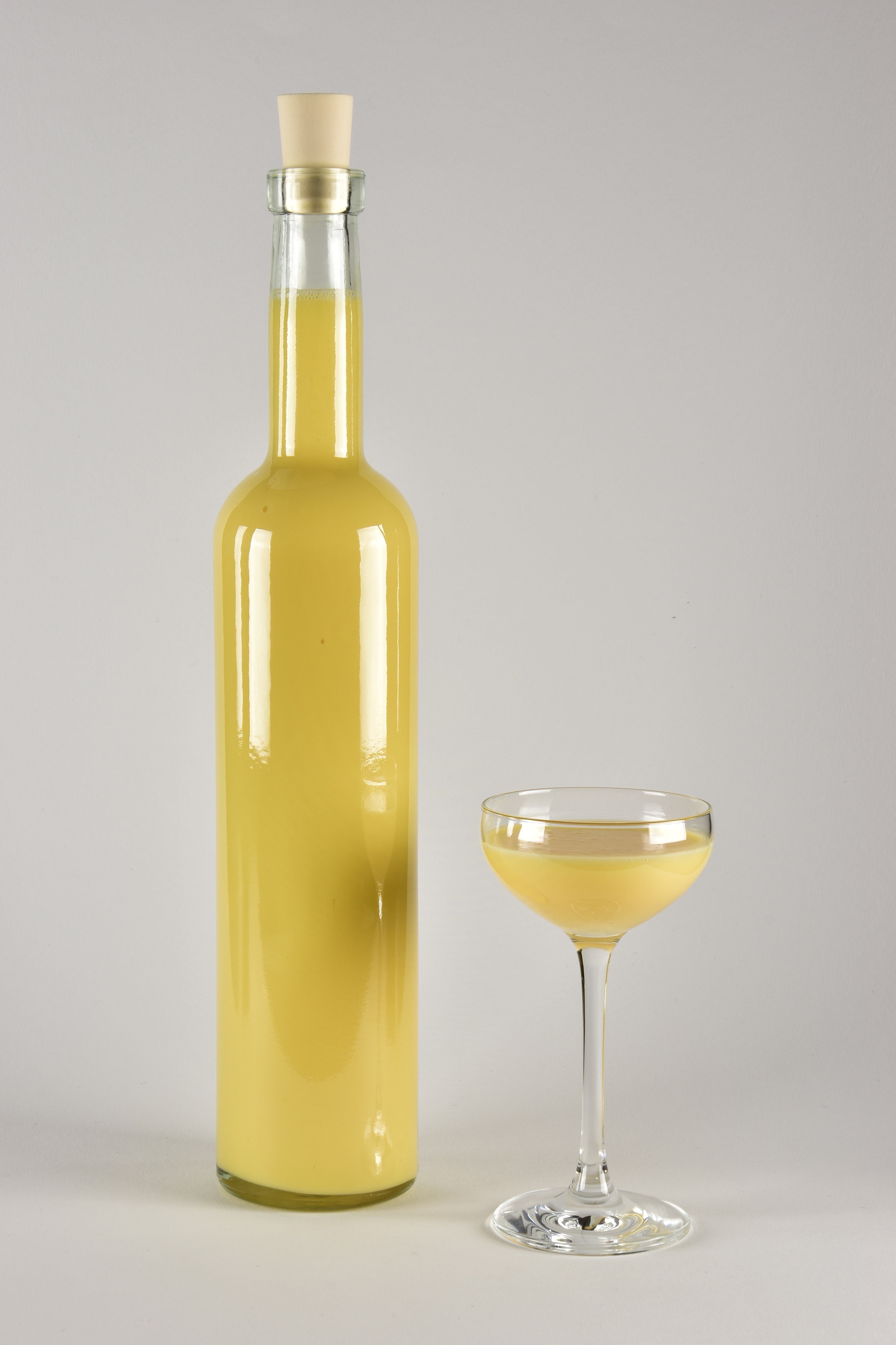 A bottle and a glass of advocaat.